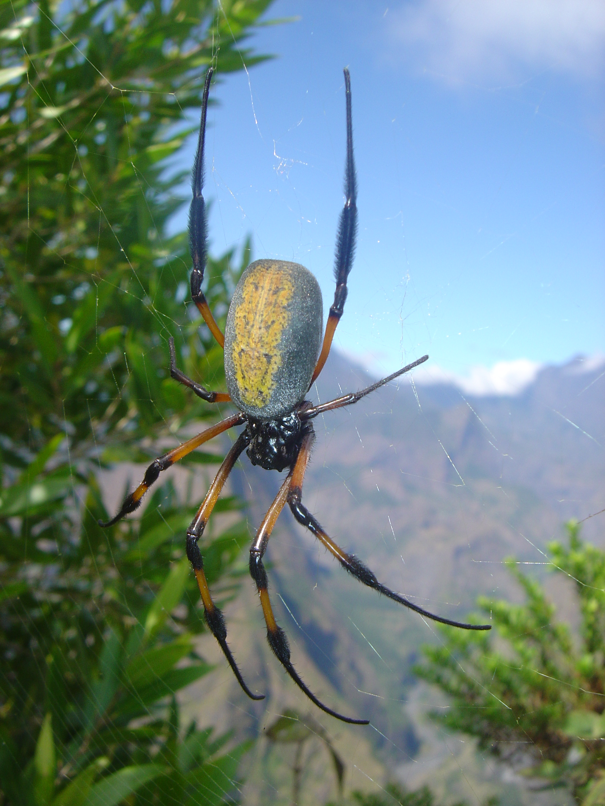 Female photographed near Dos d'Âne, Réunion Island, on the crest of the Roche vert bouteille.